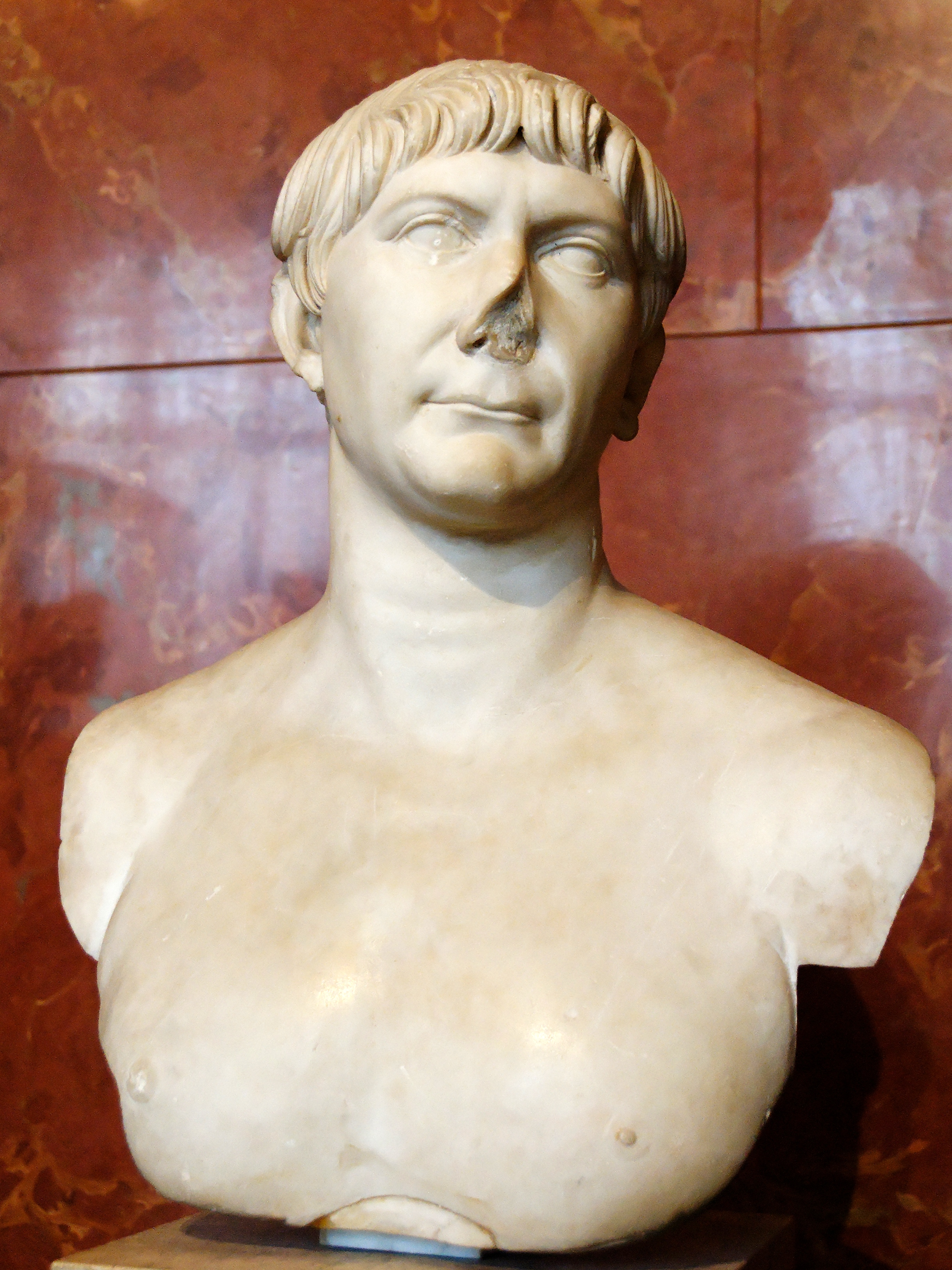 Bust of Trajan (53–117 AD), emperor